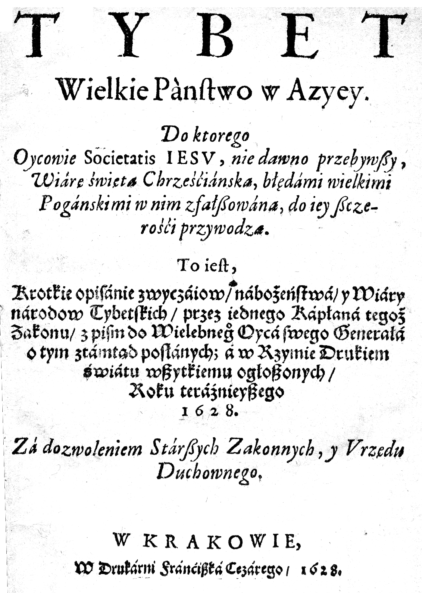 Tybet Wielkie Państwo w Azyey, Kraków 1628